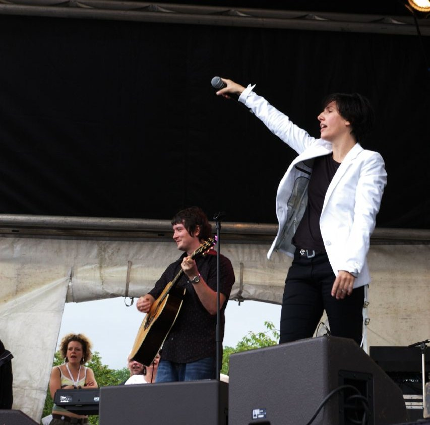 Texas